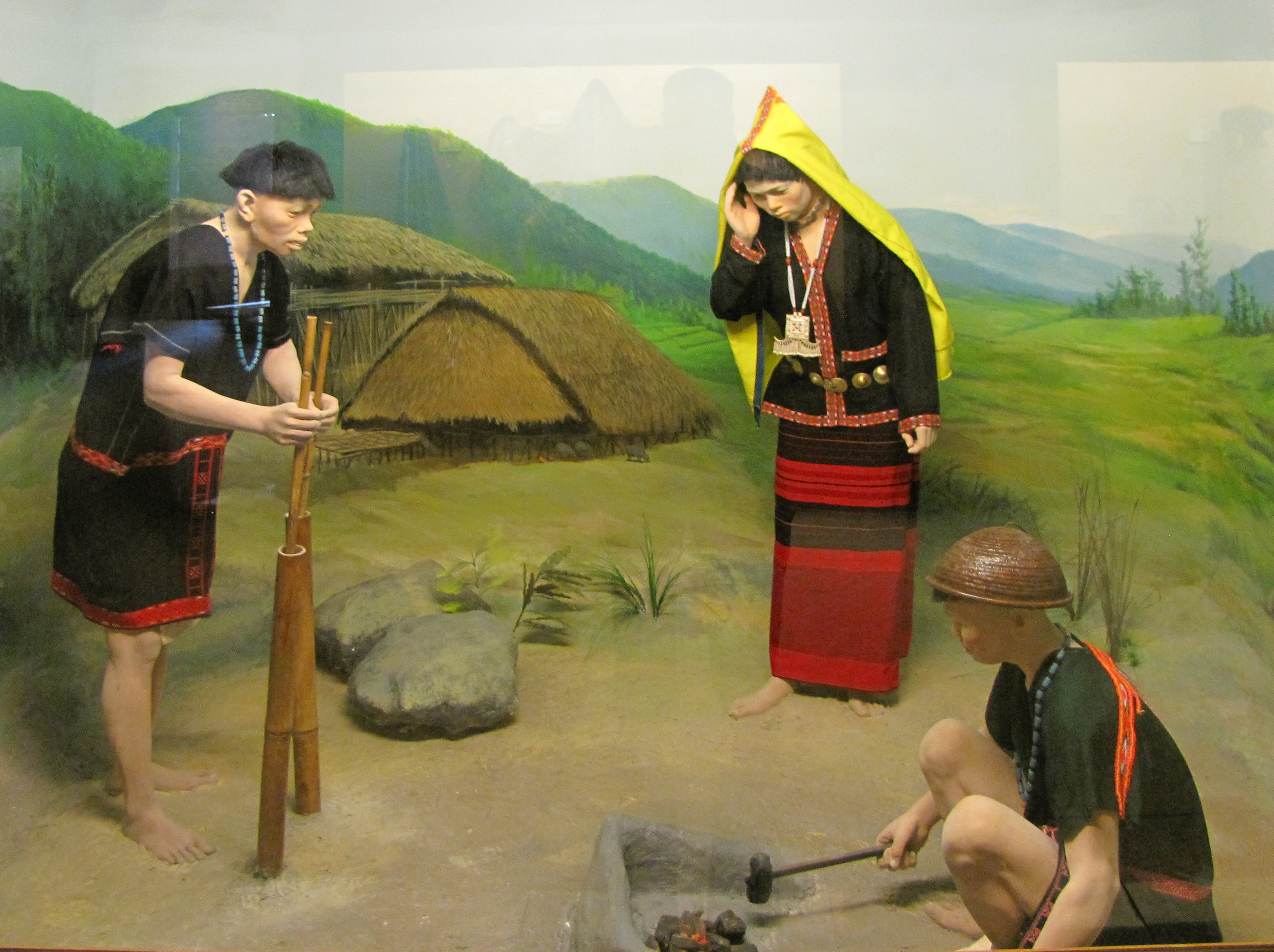 Diorama of Adi Minyong tribe at Jawaharlal Nehru Museum, Itanagar, Arunachal Pradesh, India.